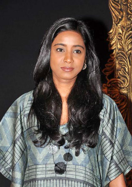 Shilpa Rao at the Premiere of 'Jab Tak Hai Jaan'